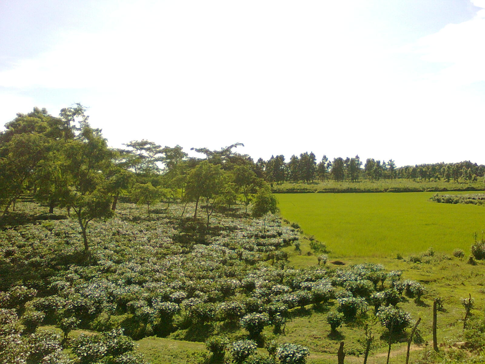 Tea plantations and Paddy in same fields - View from Goalpara